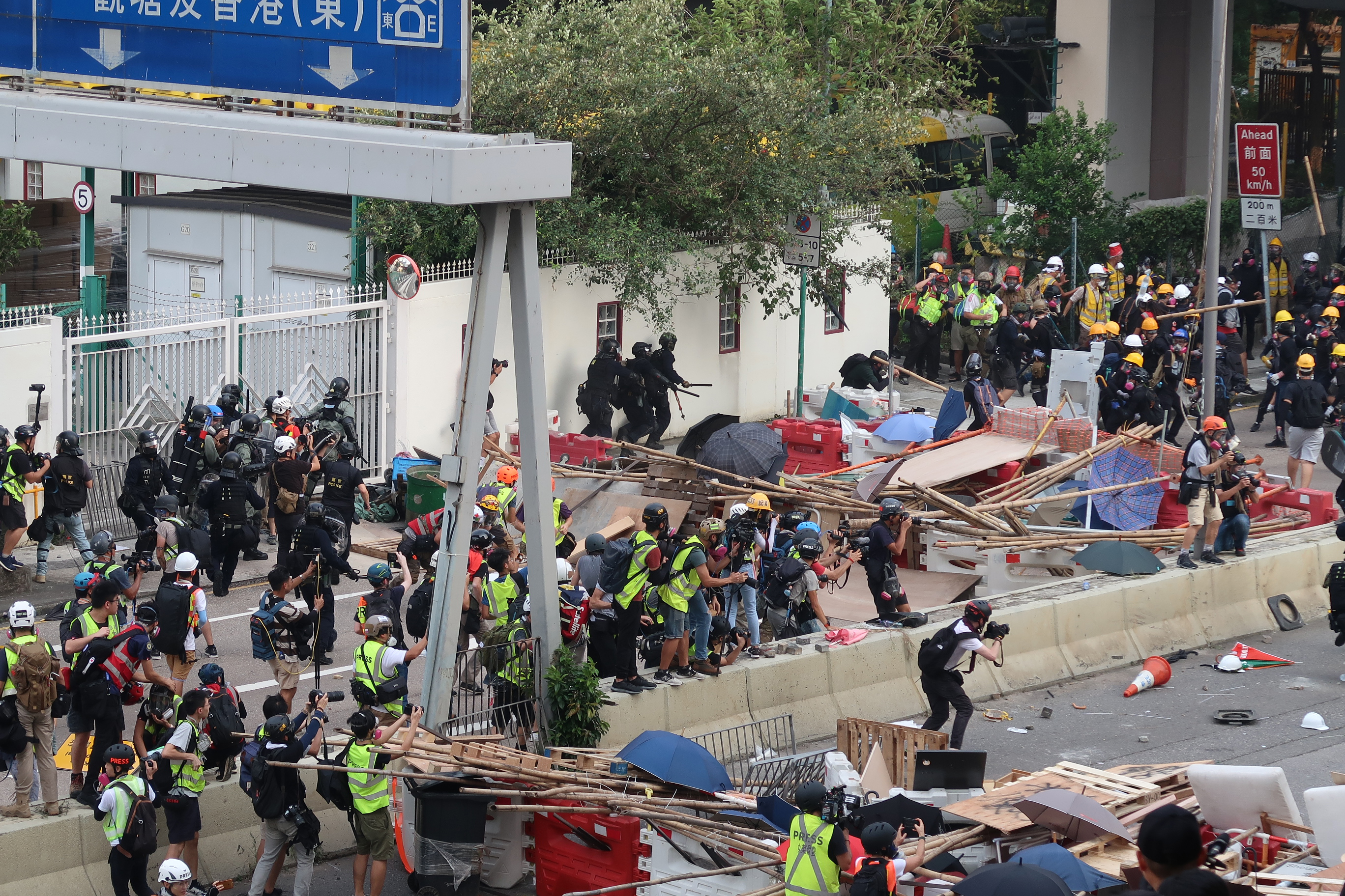 Special Tactical Squad in Wai Yip Street